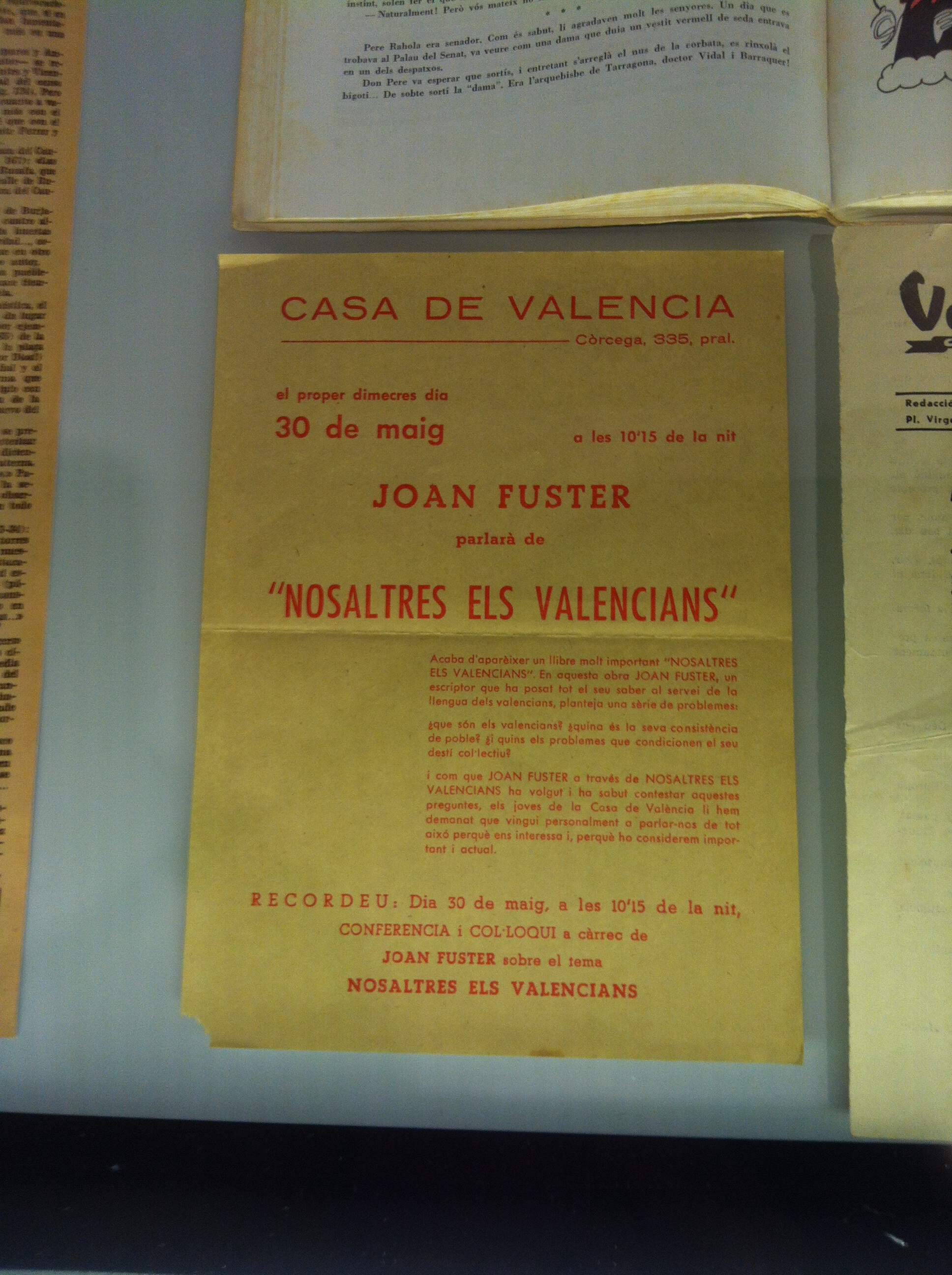 Joan Fuster. Nosaltres els valencians. 1962-2012 exhibition in Barcelona